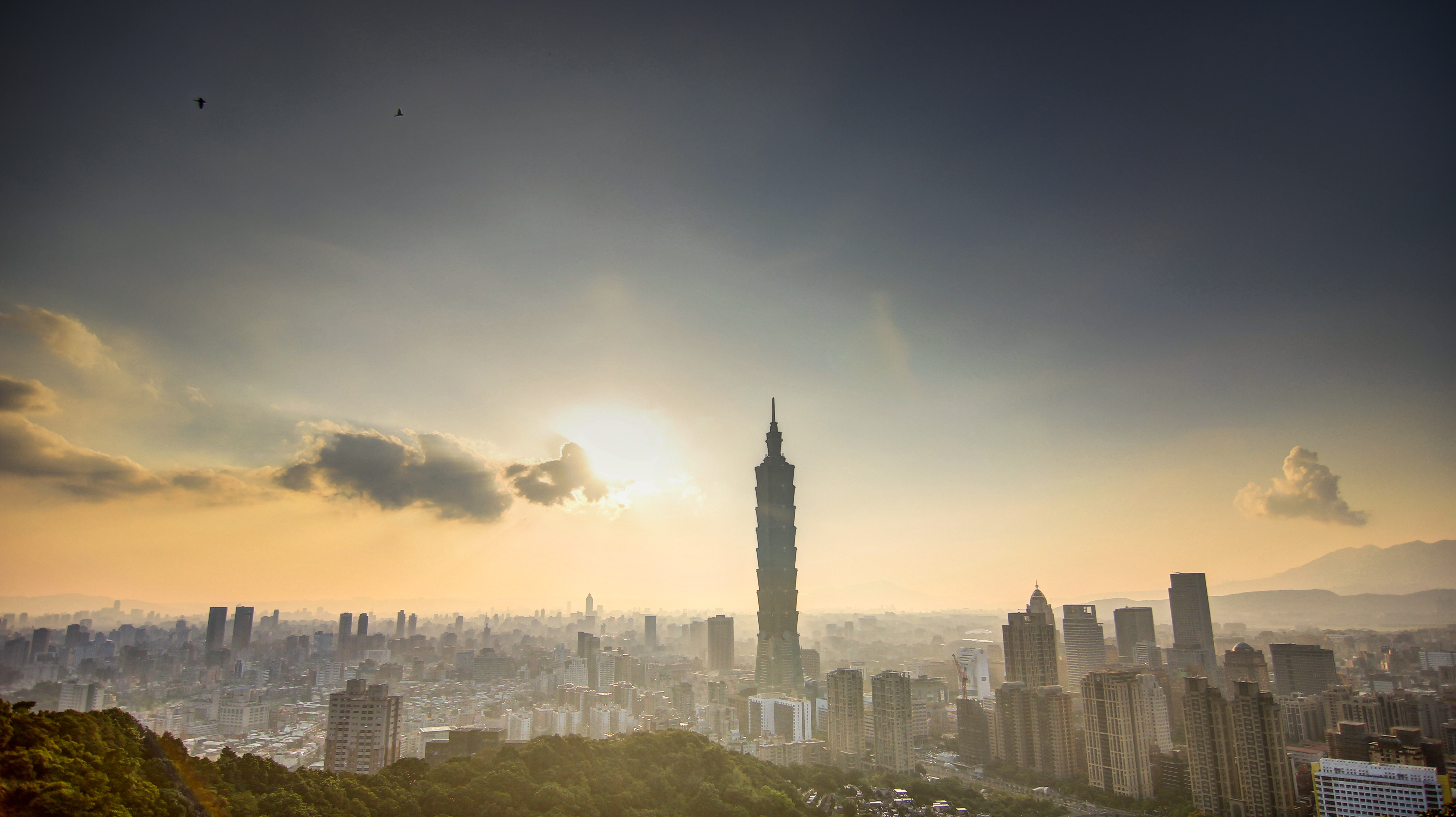 Sunset skyline silhouette of Taipei, Taiwan photographed in 2015 from Mt. Elephant